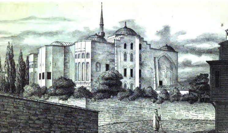 Byzantinai meletai topographikai (1877) Author: Paspatēs, Alexandros Geōrgiou, 1814-1891. [from old catalog] Subject: Inscriptions, Greek Year: 1877 Possible copyright status: NOT_IN_COPYRIGHT Language: English Digitizing sponsor: Google Book contributor: Oxford University Collection: europeanlibraries